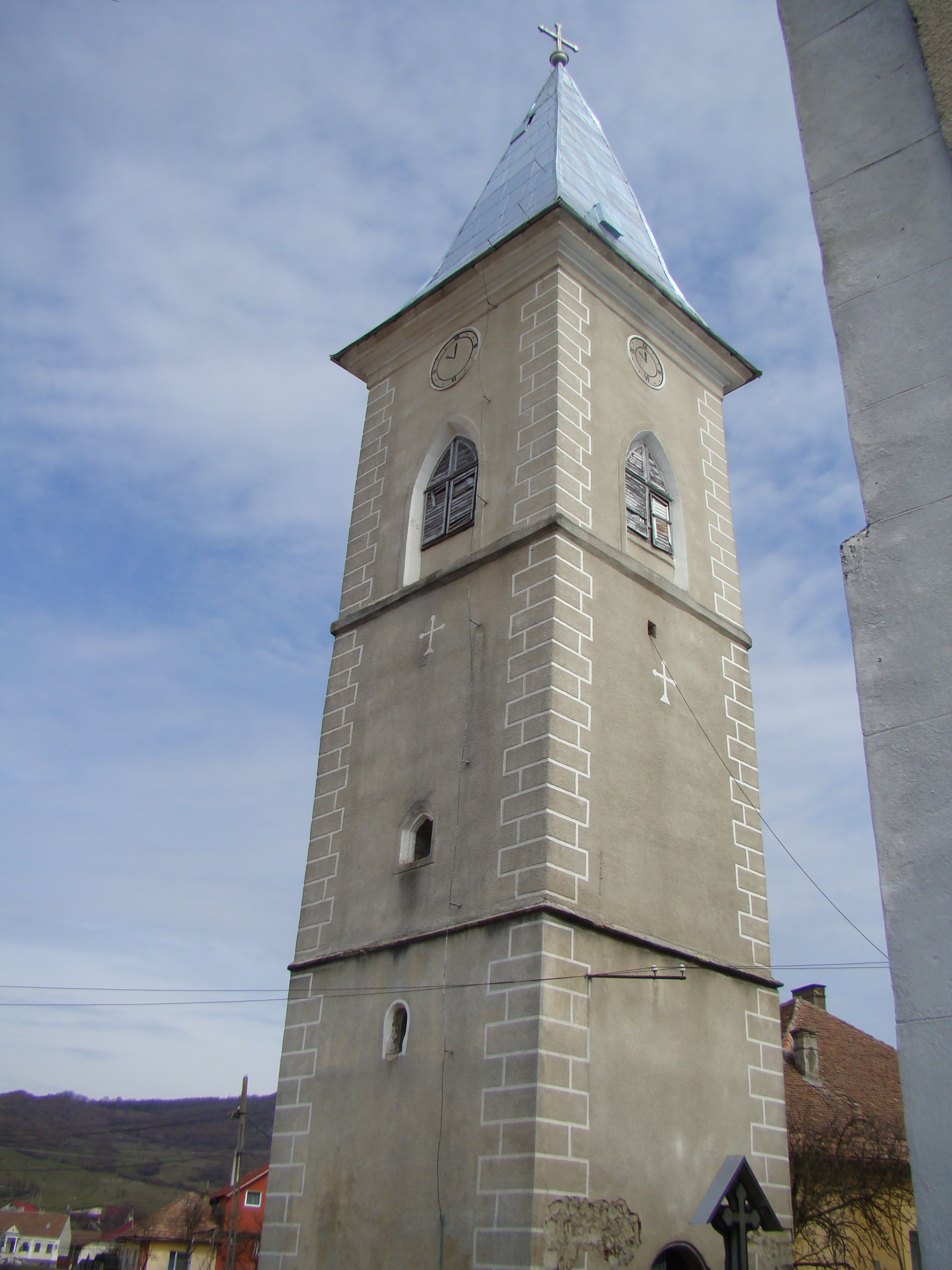 Saint Demetrius church in Crainimăt, Bistrița-Năsăud county, Romania